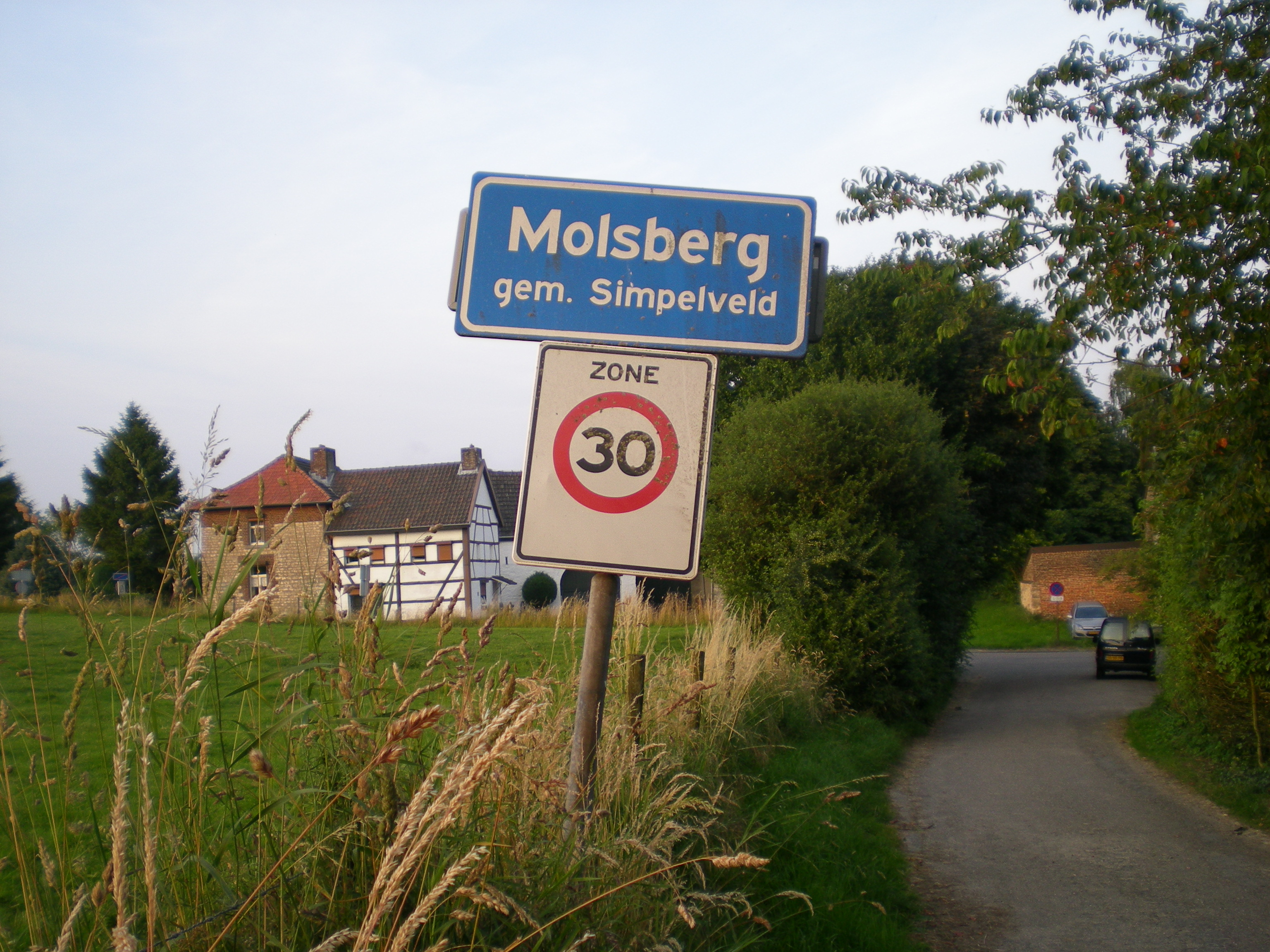 Sign, Molsberg, Simpelveld